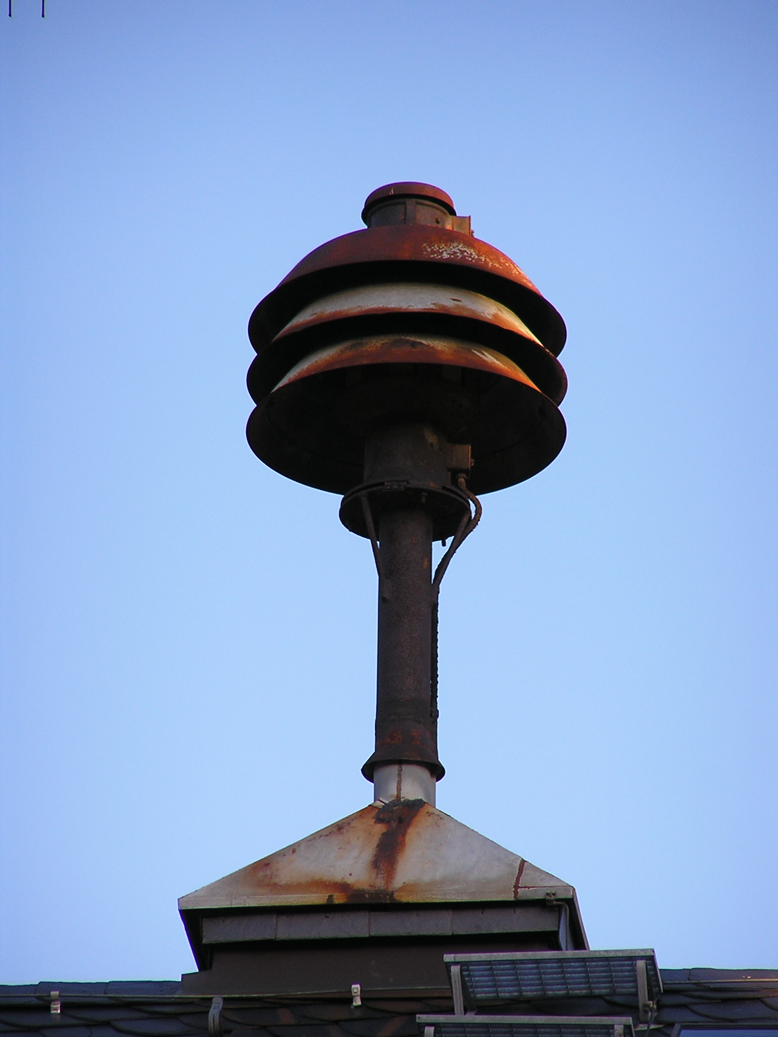 Dual-tone air raid siren, type Siemens FM SI 40